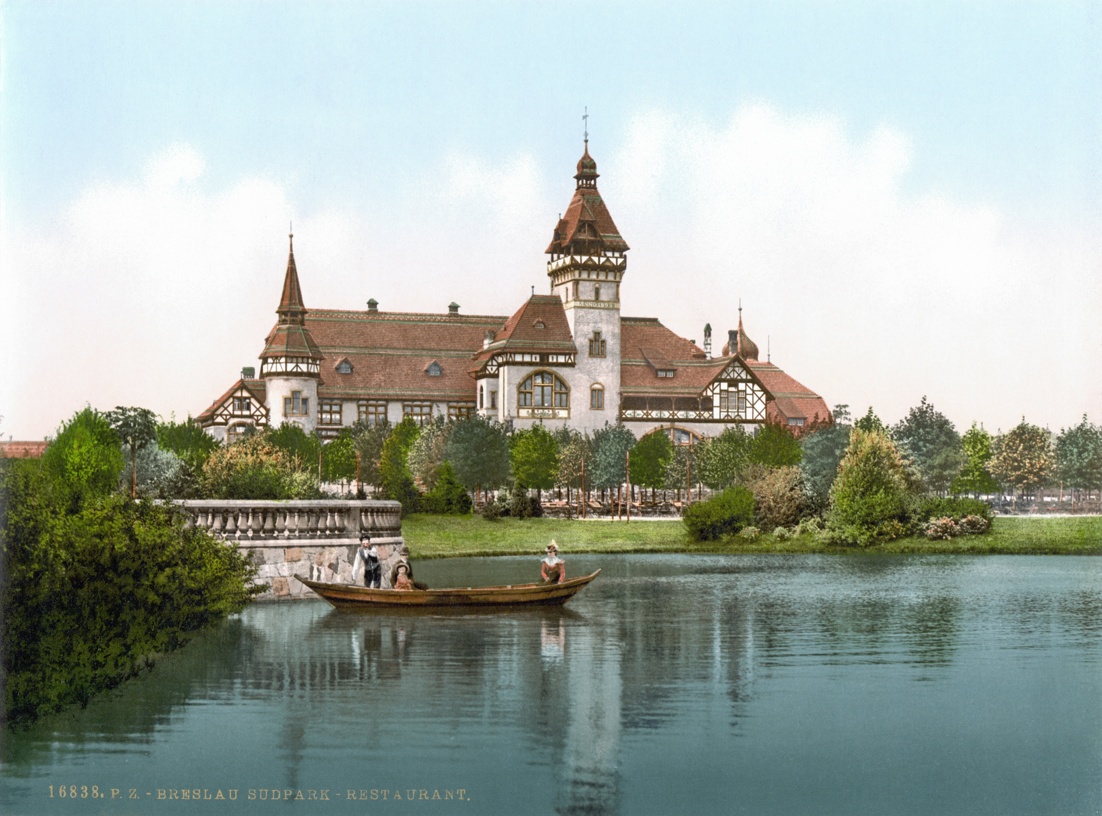 South Park Restaurant, Breslau, Silesia, Germany (i.e., Wrocław, Poland)